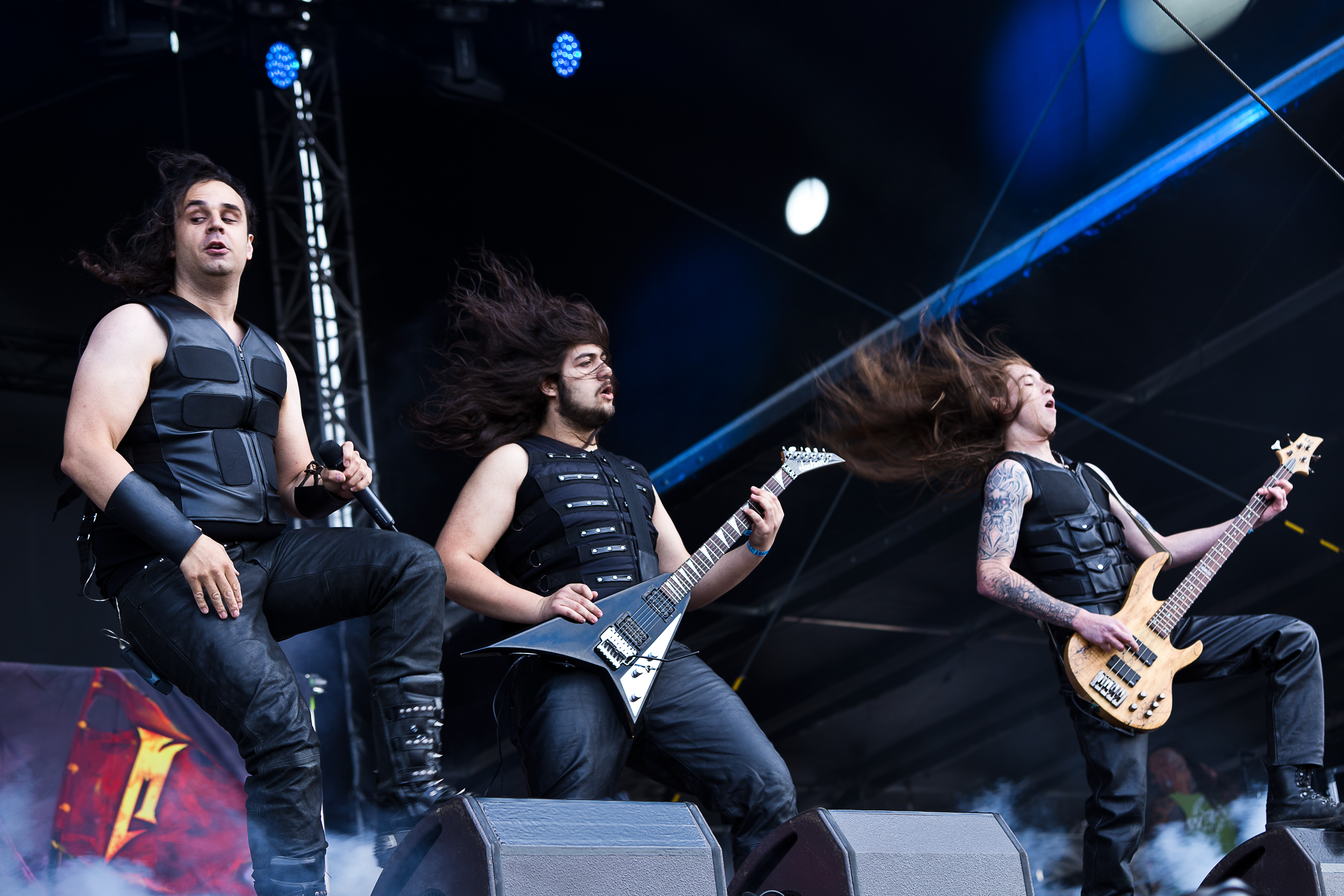 The German heavy metal band Majesty at the Rockharz Open Air 2015 in Ballenstedt/Germany.